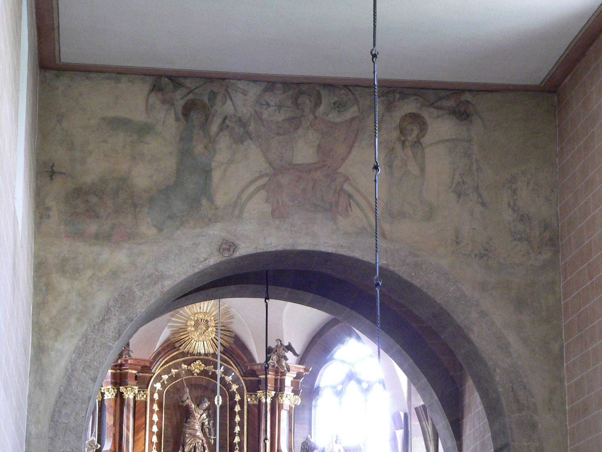 Remains of the paintings in the Carolingian nave of Justin's Church